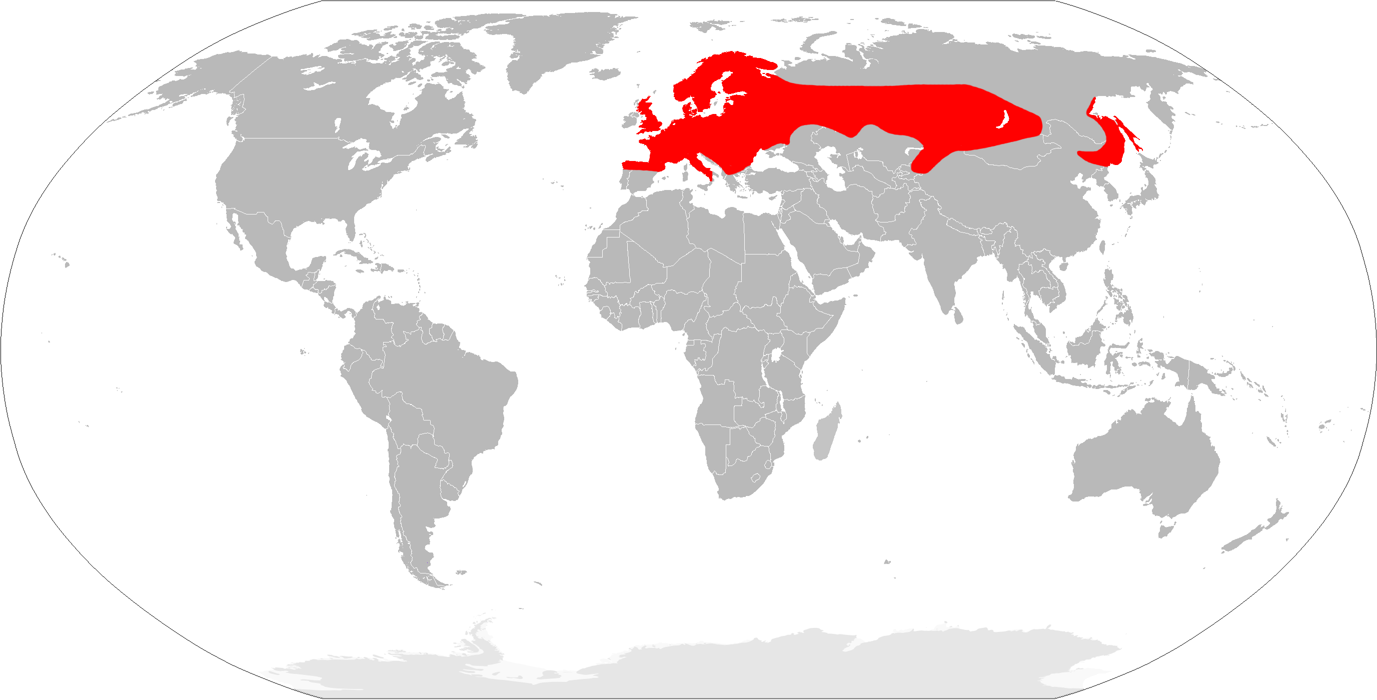 Range map of Neomys fodiens.